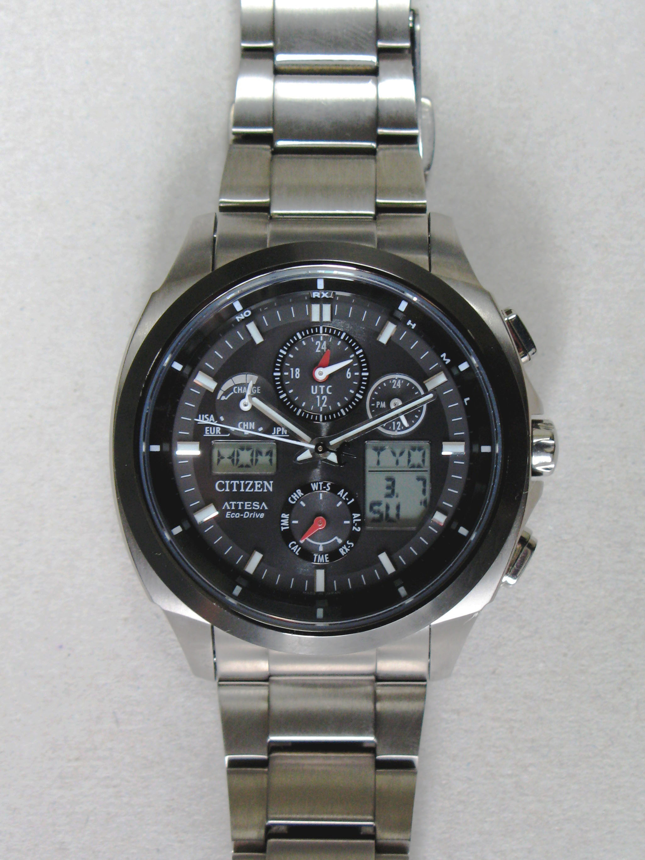 CITIZEN ATTESA Eco-Drive ATV53-3023 Specifications Movement: Eco-drive with 3,5 years power saving reserve, Radio Controlled time reception (North America, Europe, China, Japan), Accuracy without radio reception +/-15 sec/month Featuring: 10 ATM water resistance, LED, Chronograph, Timer, World Calendar, World time alarm, World time, Charge warning function, Power saving function Case: Duratect Titanium, Bracelet: Duratect Titanium Crystal: Non-reflective coated sapphire crystal Size without Crown: 41 mm Thickness/weight: 13.0 mm/104 g